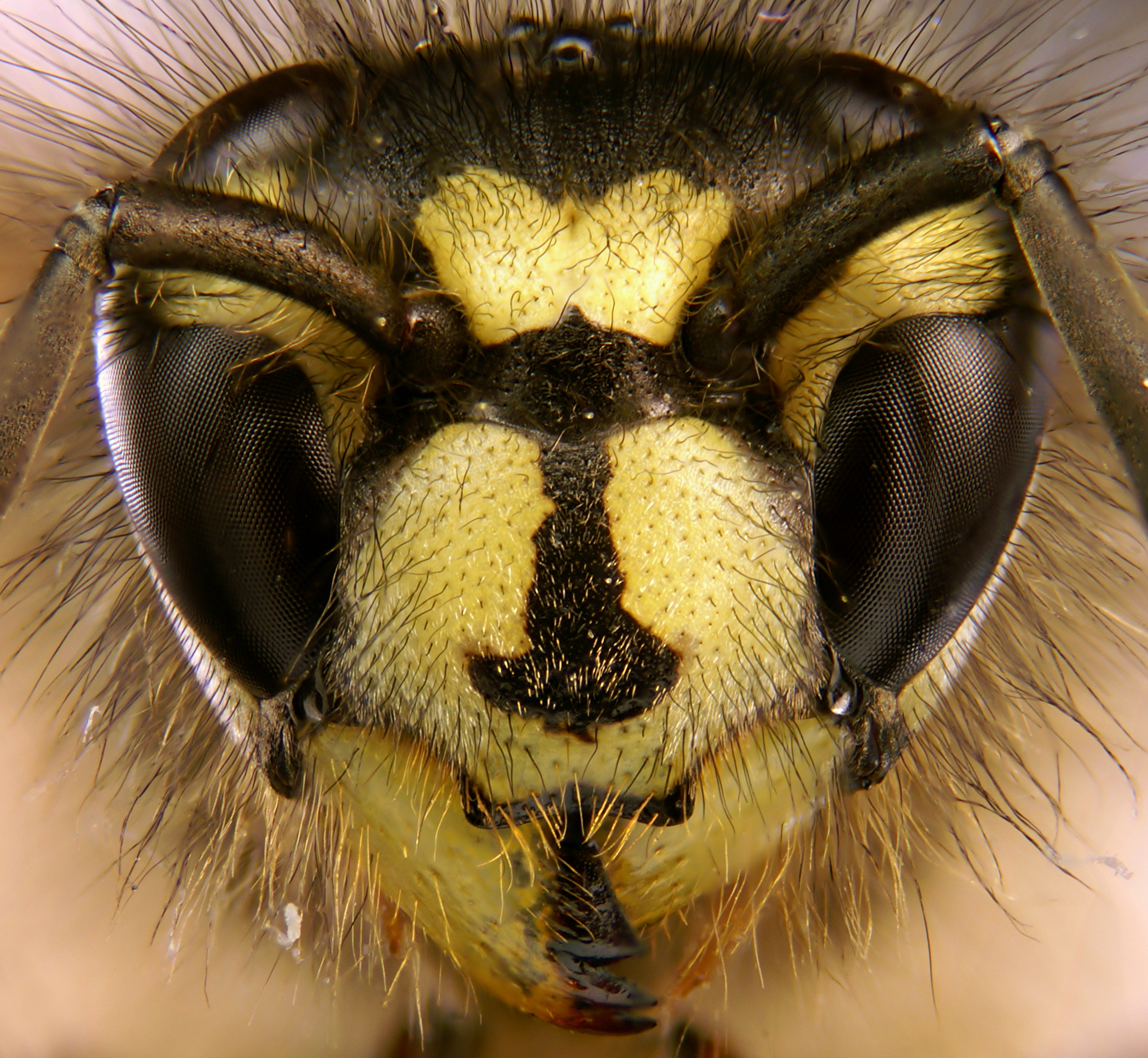 Portrait of the common wasp Vespula vulgaris depicting the characteristic head markings. Original file can be obtained from Tim Evison via